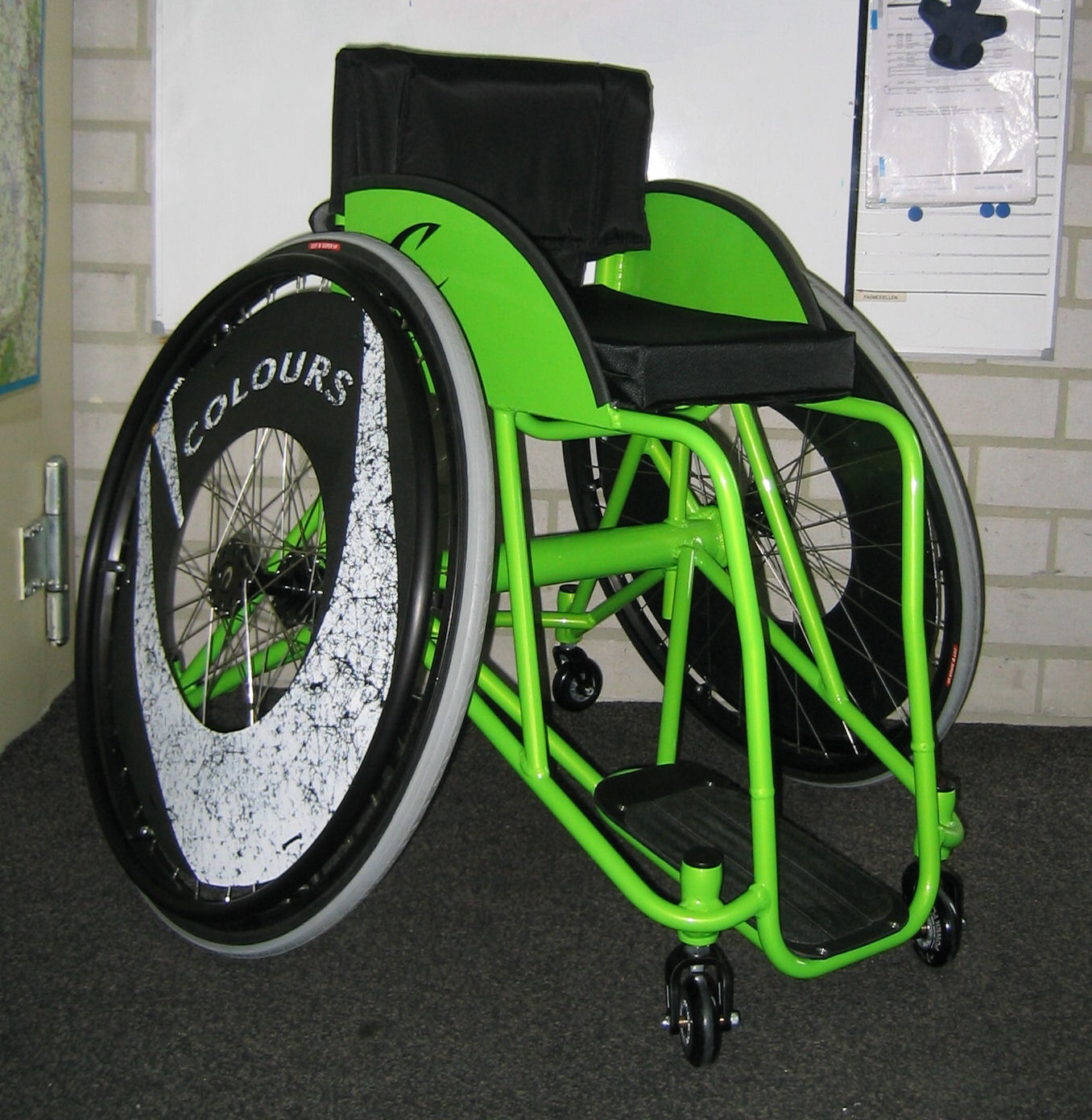 A Colours Zephyr wheelchair suitable for Wheelchair basketball.